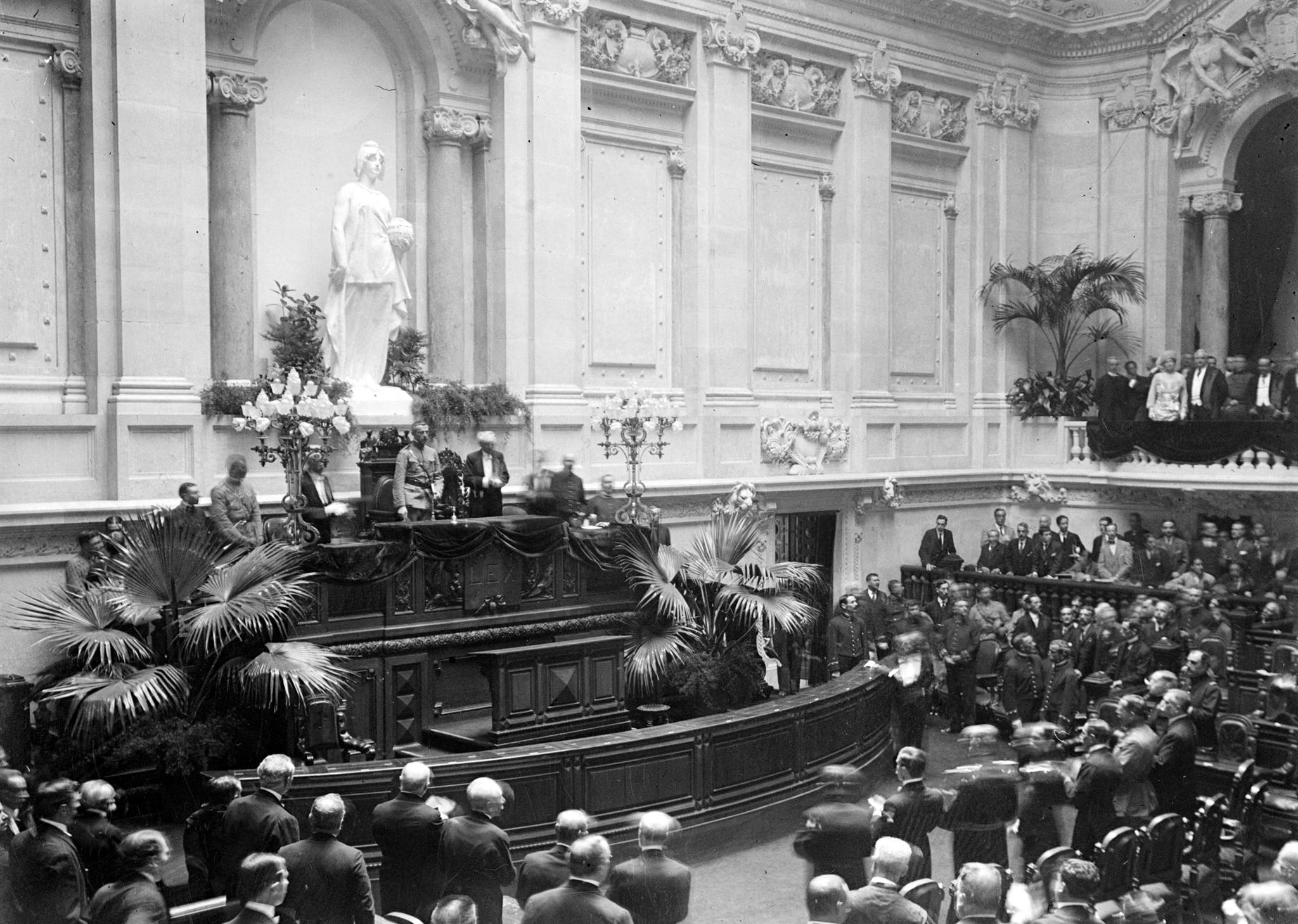 Swearing-in of Sidónio Pais before Parliament, after his election to the office of President of the Republic. 1918.